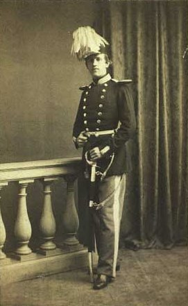 Frederik Herman Christian de Falsen Zytphen-Adeler (1840-1908), Danish Baron and estate owner